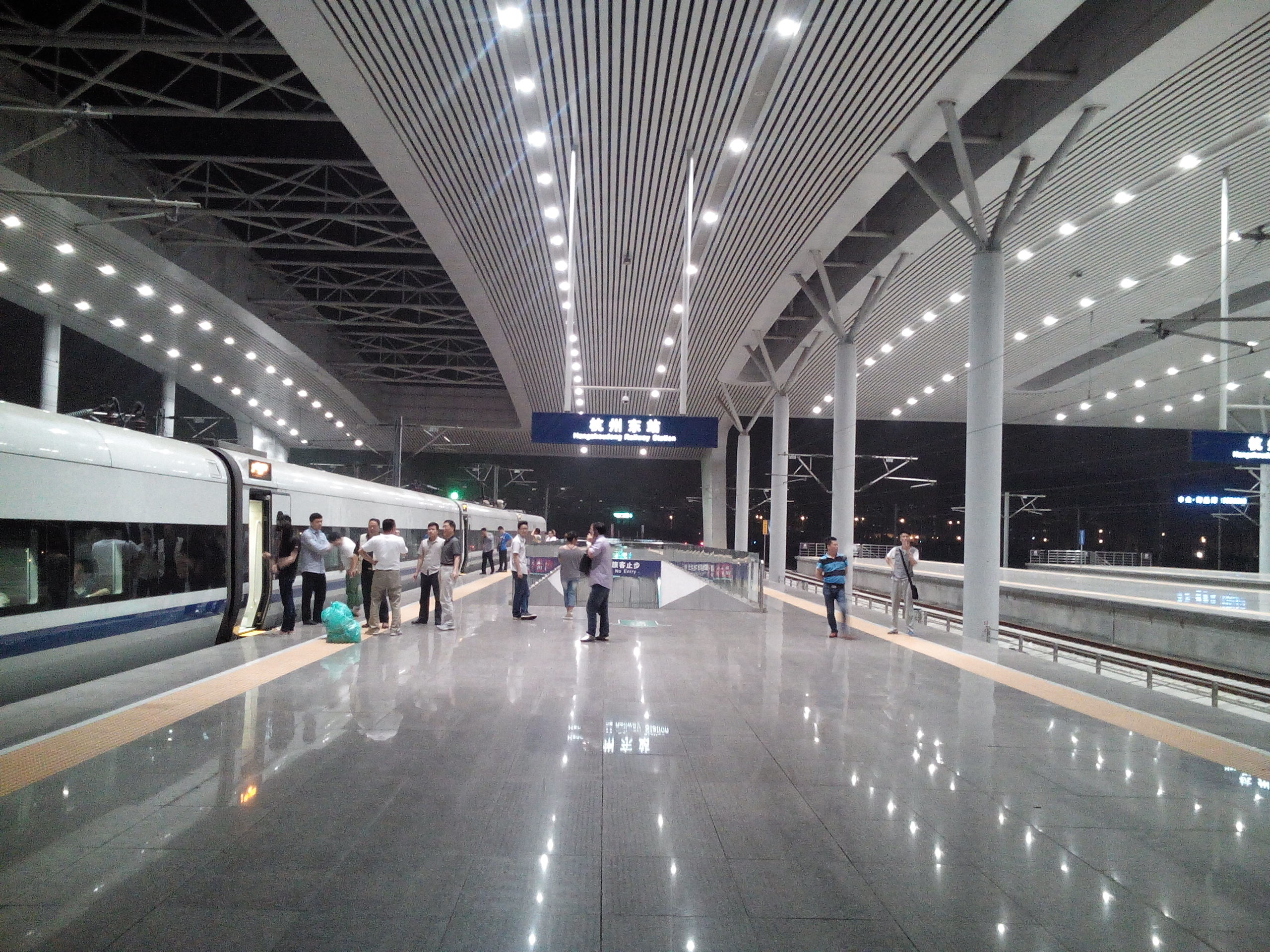 201405 D98 at Hangzhoudong Station